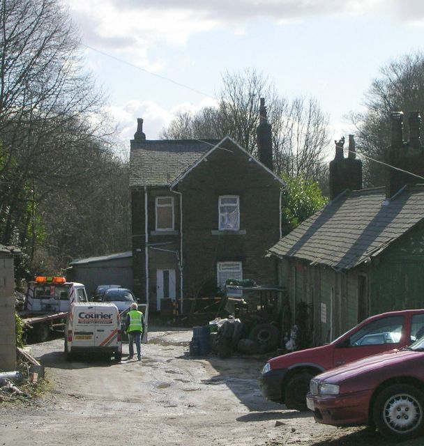 Old Station House - Ovenden